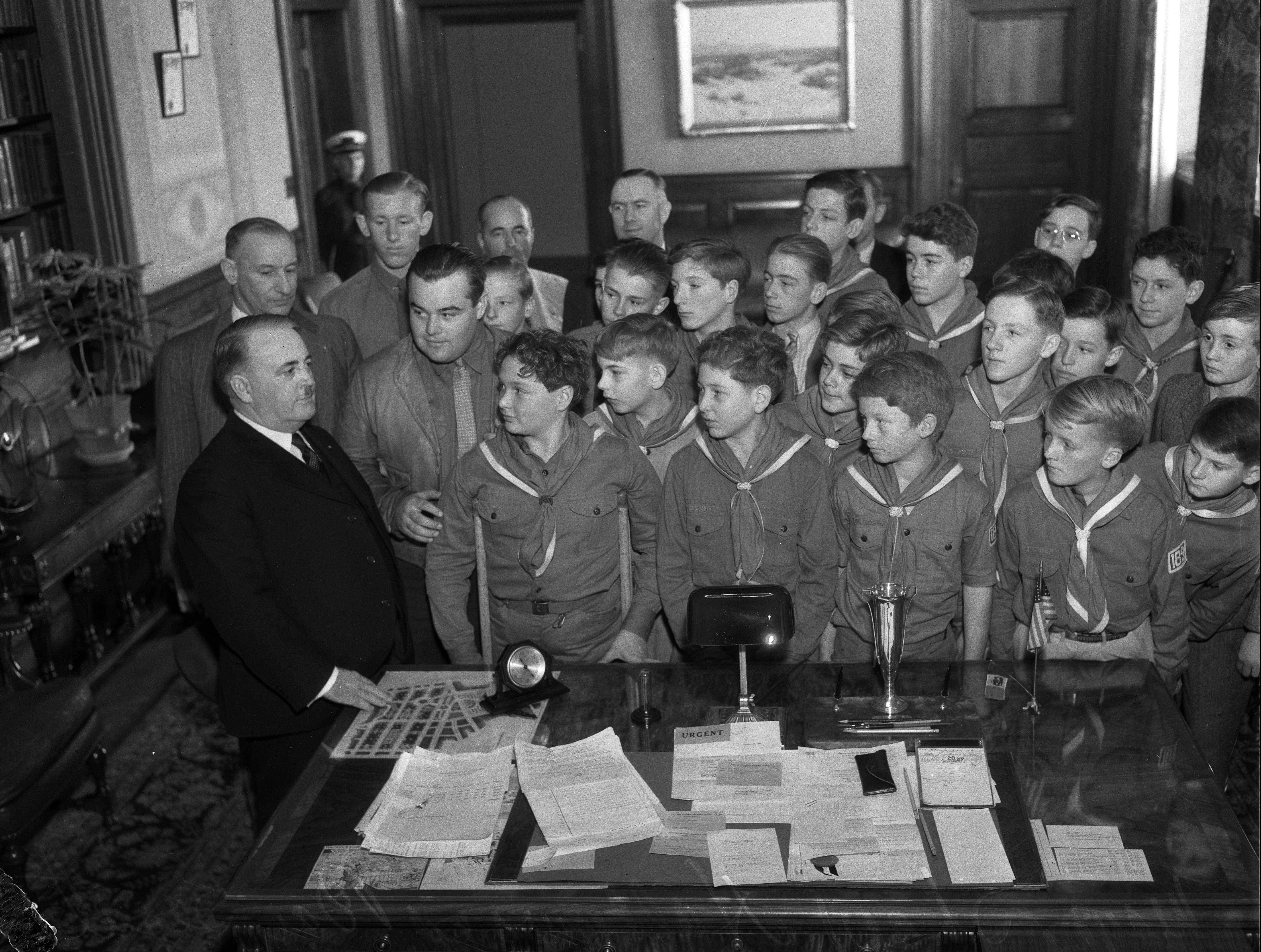 Mayor Frank L. Shaw meeting with Boy Scouts in his office, Los Angeles, Calif., circa 1933